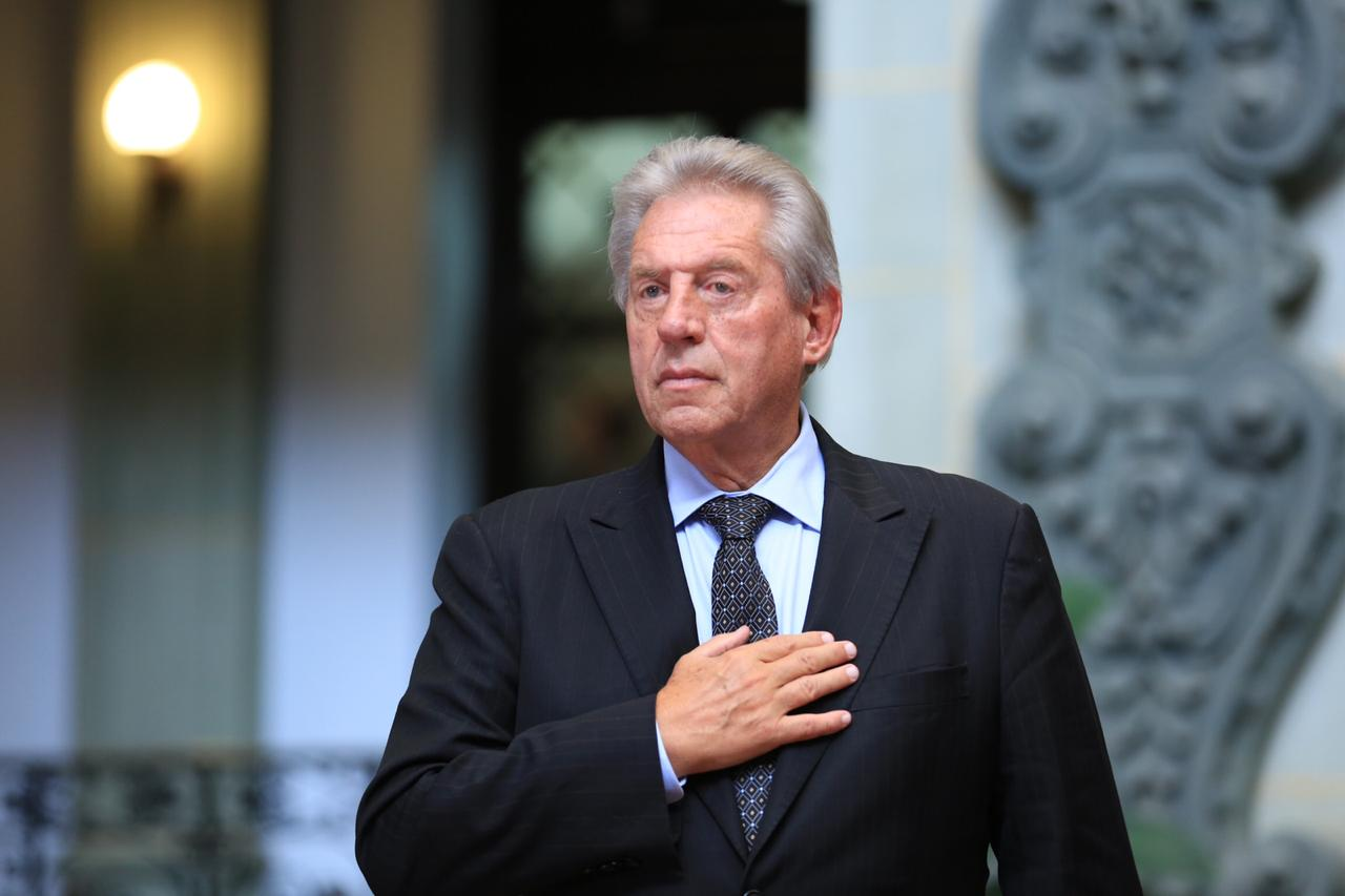 Doctor John Calvin Maxwell receives the Medal of Peace from Guatemalan government on Tuesday, 16 October, 2018.